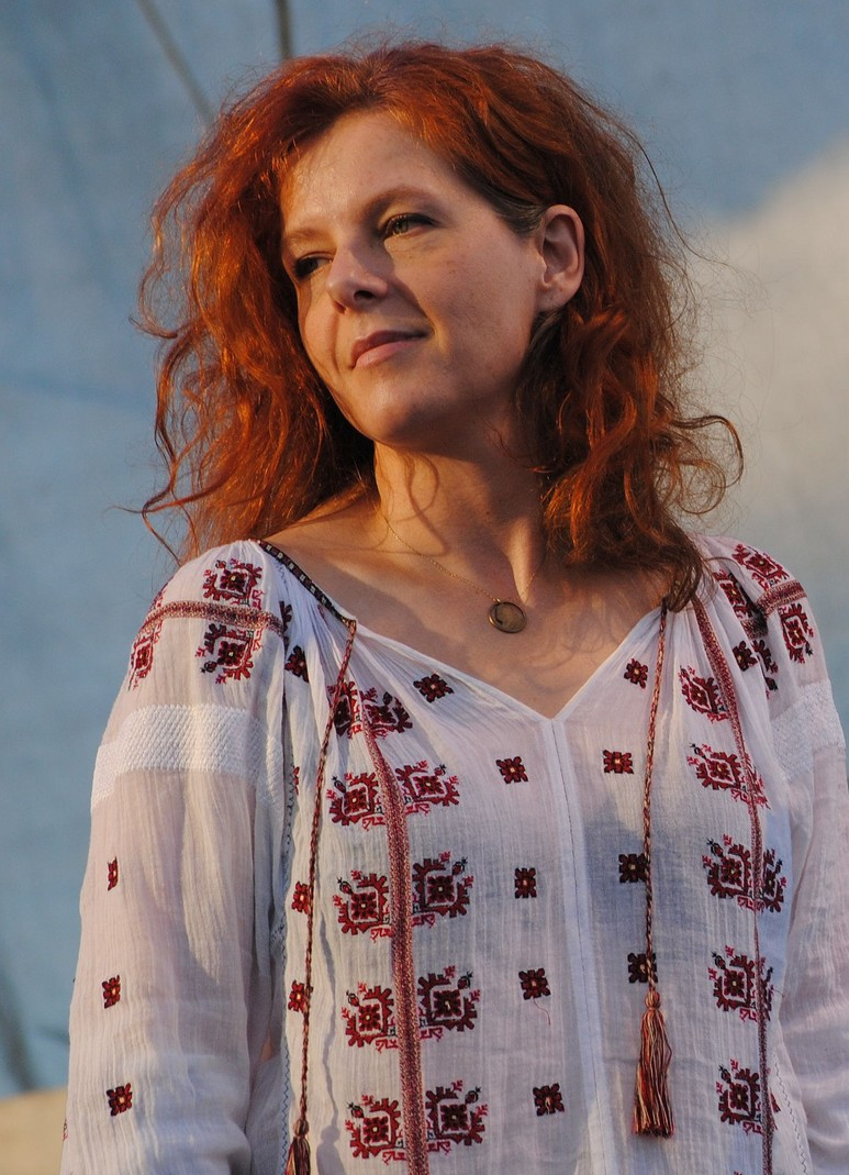 Neko Case performing at Forecastle Fest 2012